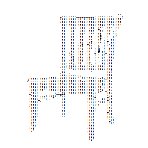 An ASCII Image of a bistro chair